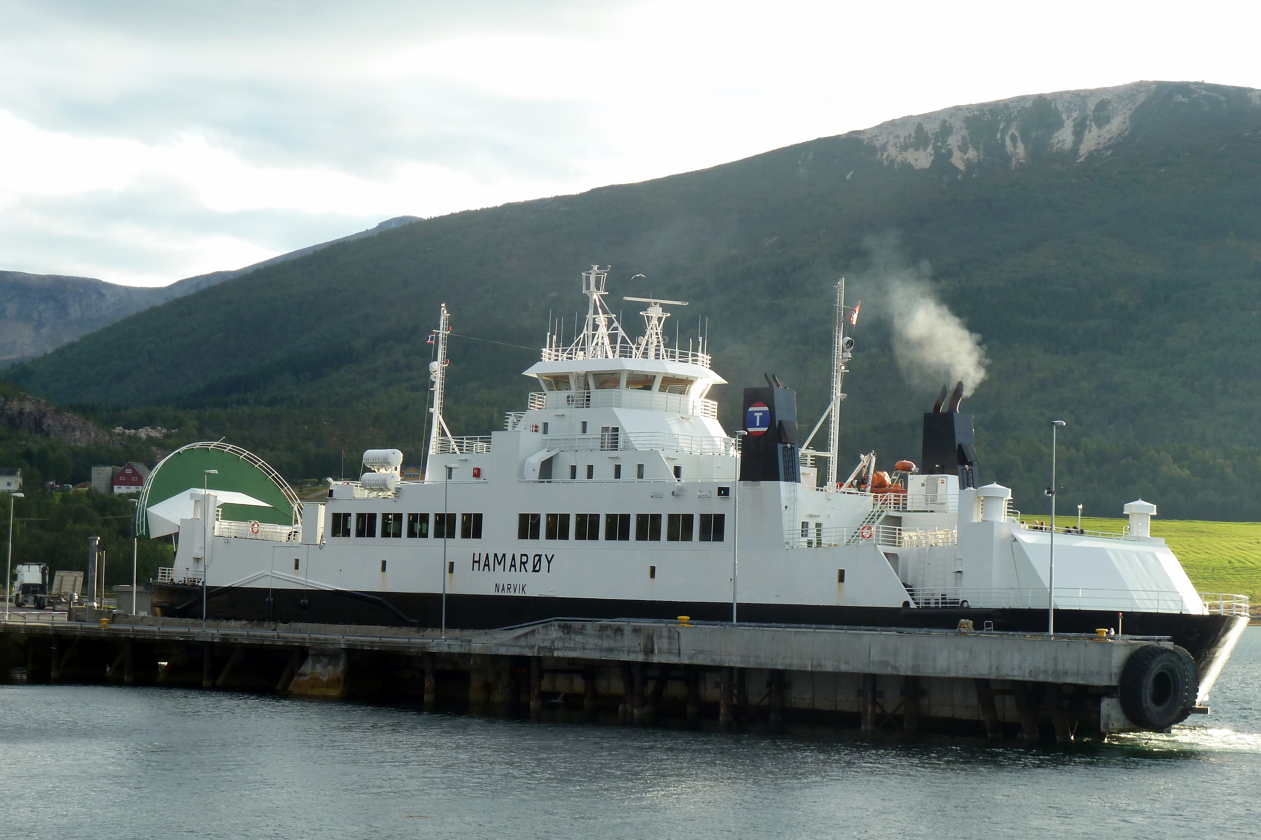 Torghatten Nord's car ferry "Hamarøy" docking in Bognes, Tysfjord, Norway. It is servicing as "extra ferry" at the Bognes-Lødingen route.